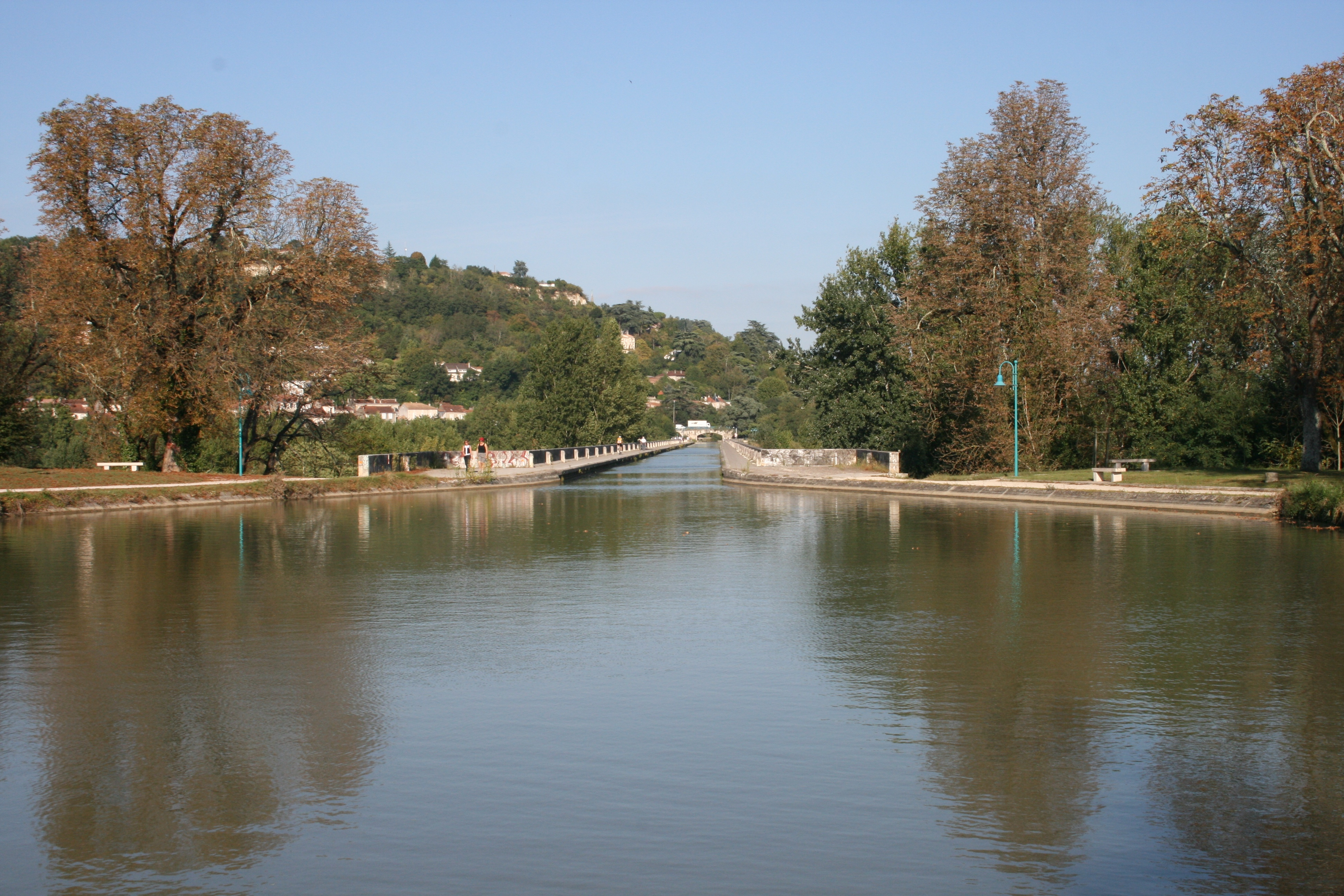 Agen canal bridge, Agen, France